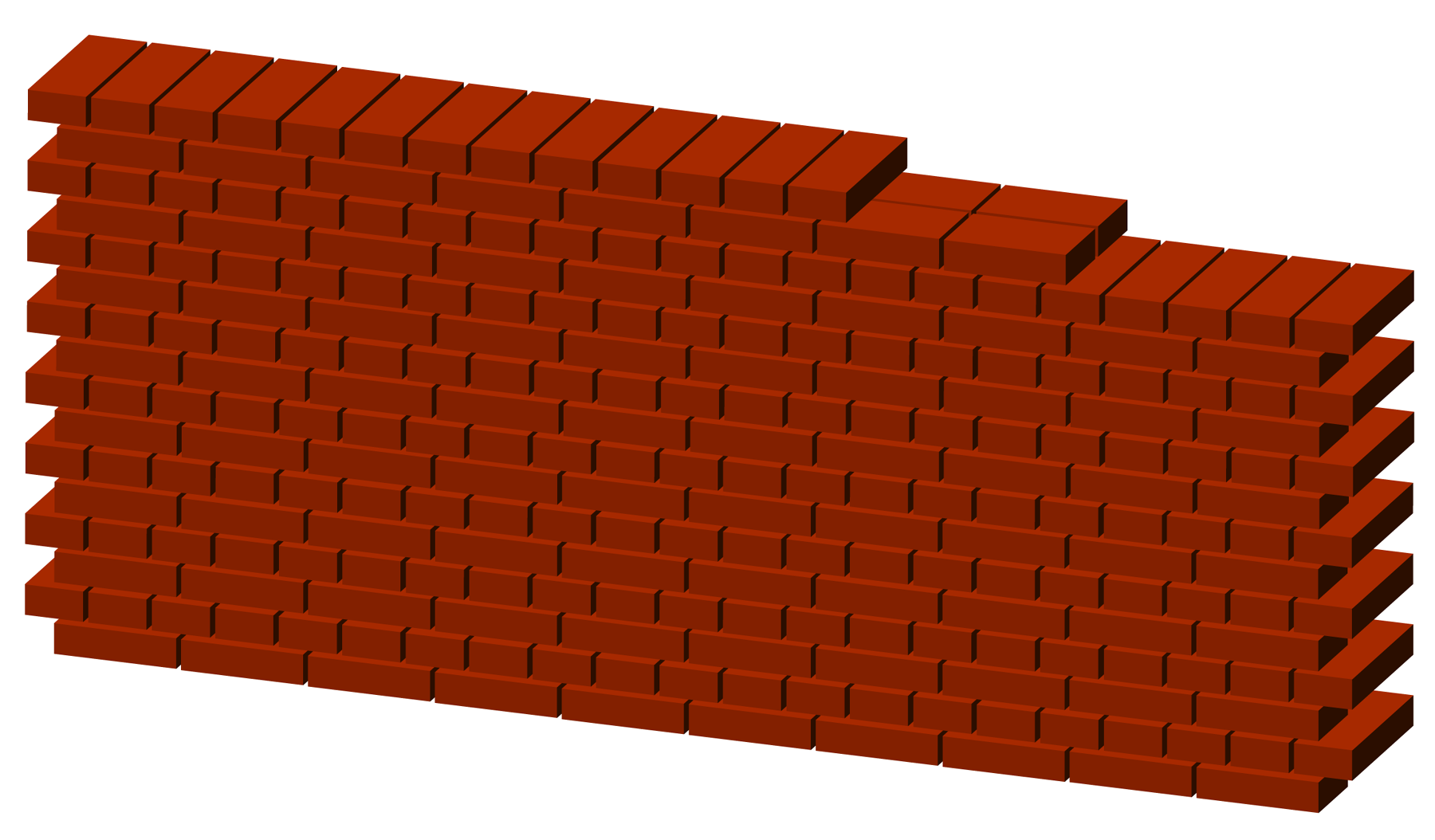 English bond